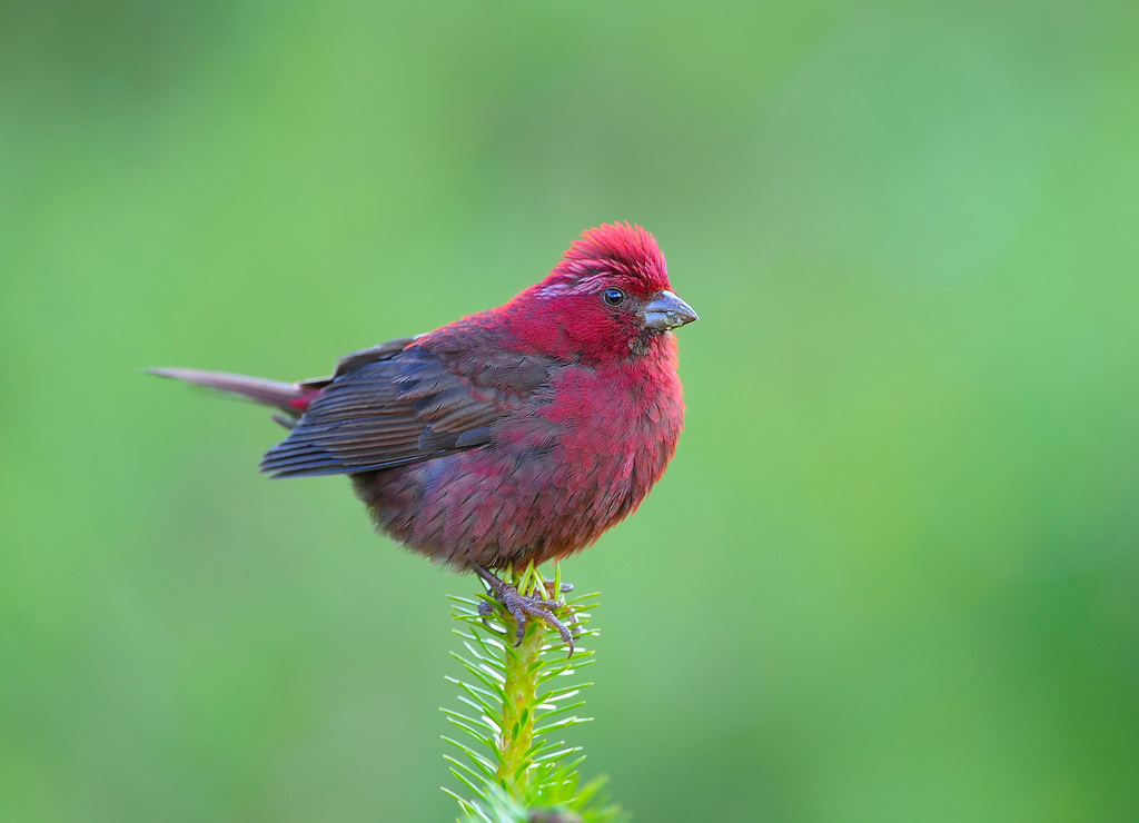 Taiwan Rosefinch Carpodacus formosanus, male, Taiwan